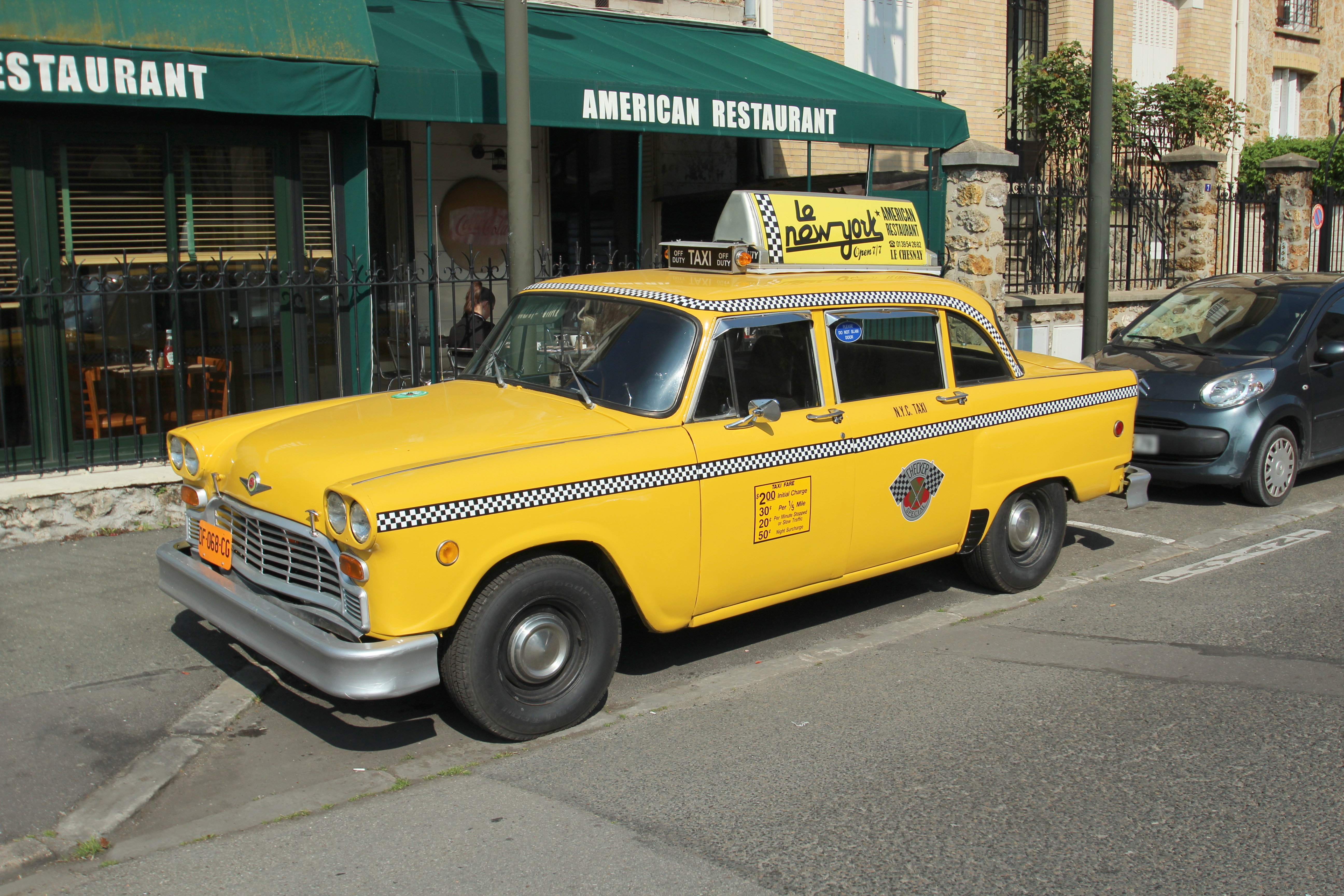 New York cab from the Le New York restaurant located Saint-Antoine de Padoue place in Le Chesnay, France. Object location48° 49′ 05.95″ N, 2° 07′ 48.76″ E